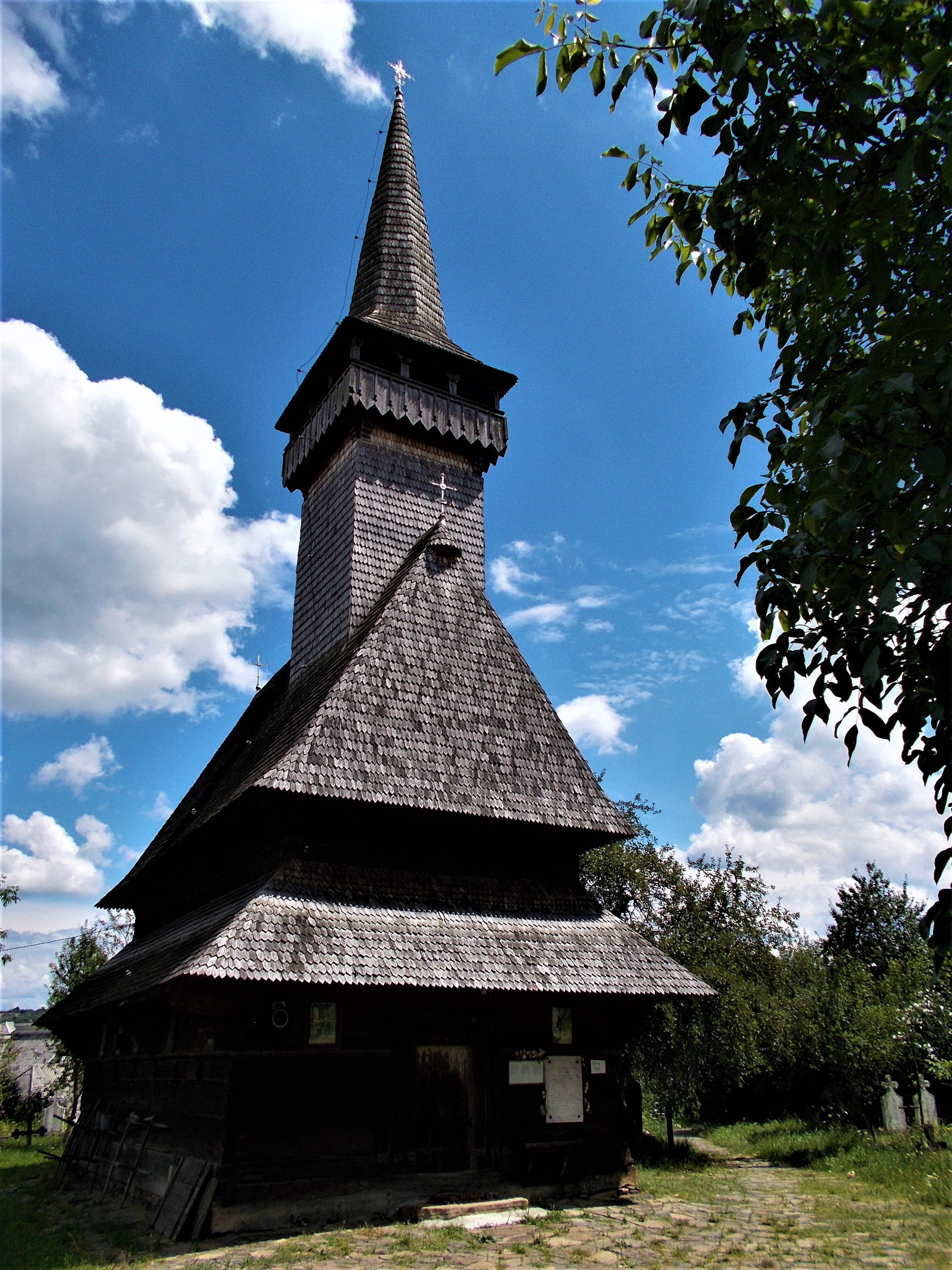 Wooden church in Sat-Șugatag, Maramureș County, Romania